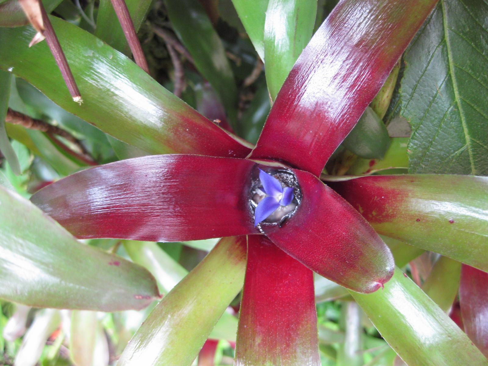 Photographed at Huntington Gardens (Los Angeles) in June